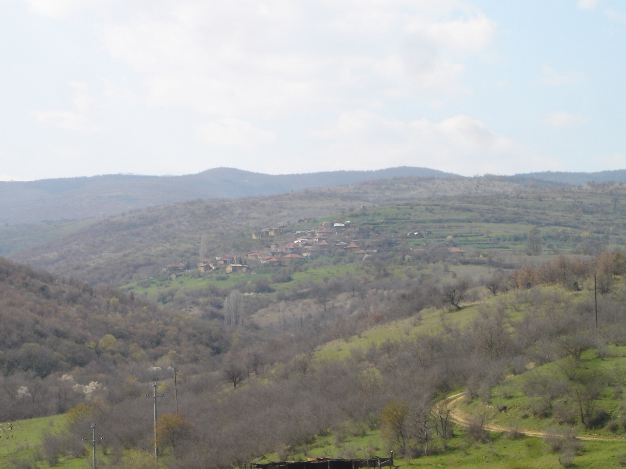 village of S'lp near Veles, Macedonia